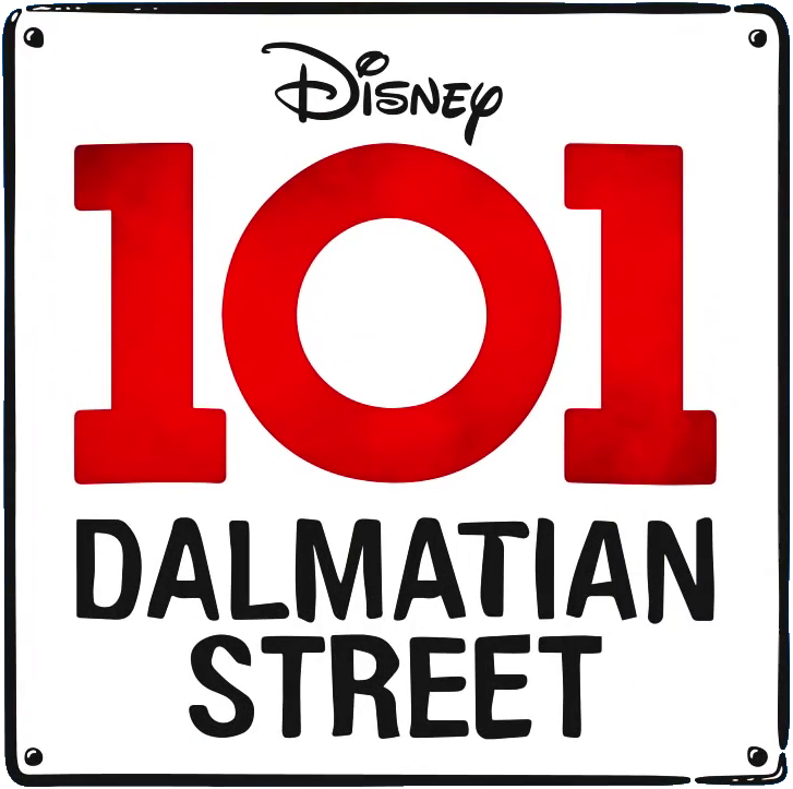 This file shows the logo of the British-Canadian TV series, 101 Dalmatian Street.